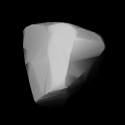 3D convex shape model of 1135 Colchis, computed using light curve inversion techniques. J. Hanuš, J. Ďurech, M. Brož, B. D. Warner (June 2011). "A study of asteroid pole-latitude distribution based on an extended set of shape models derived by the lightcurve inversion method". Astronomy and Astrophysics 530: A134. ISSN 0004-6361. arXiv